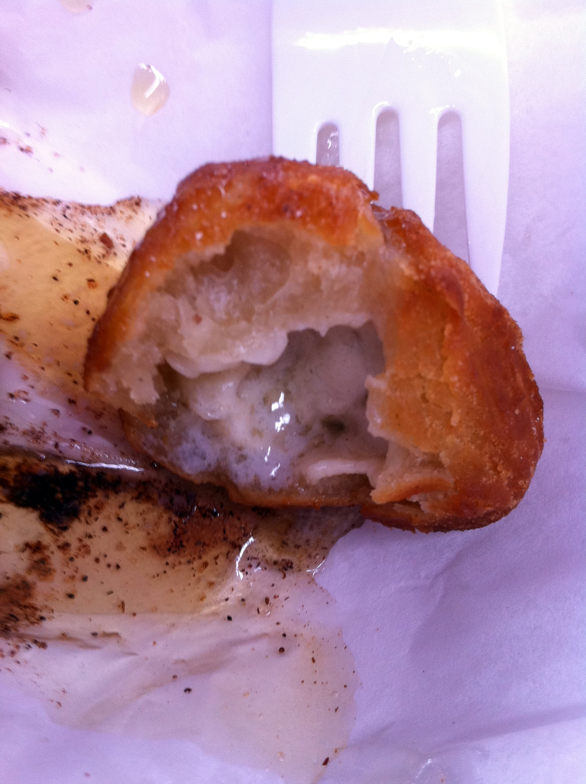 Fried butter at State Fair of Texas in Dallas, TX September 2010